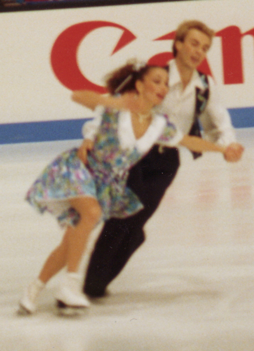 Maya Usova and Alexander Schulin at the free program at the Europena championships 1994 in Copenhagen